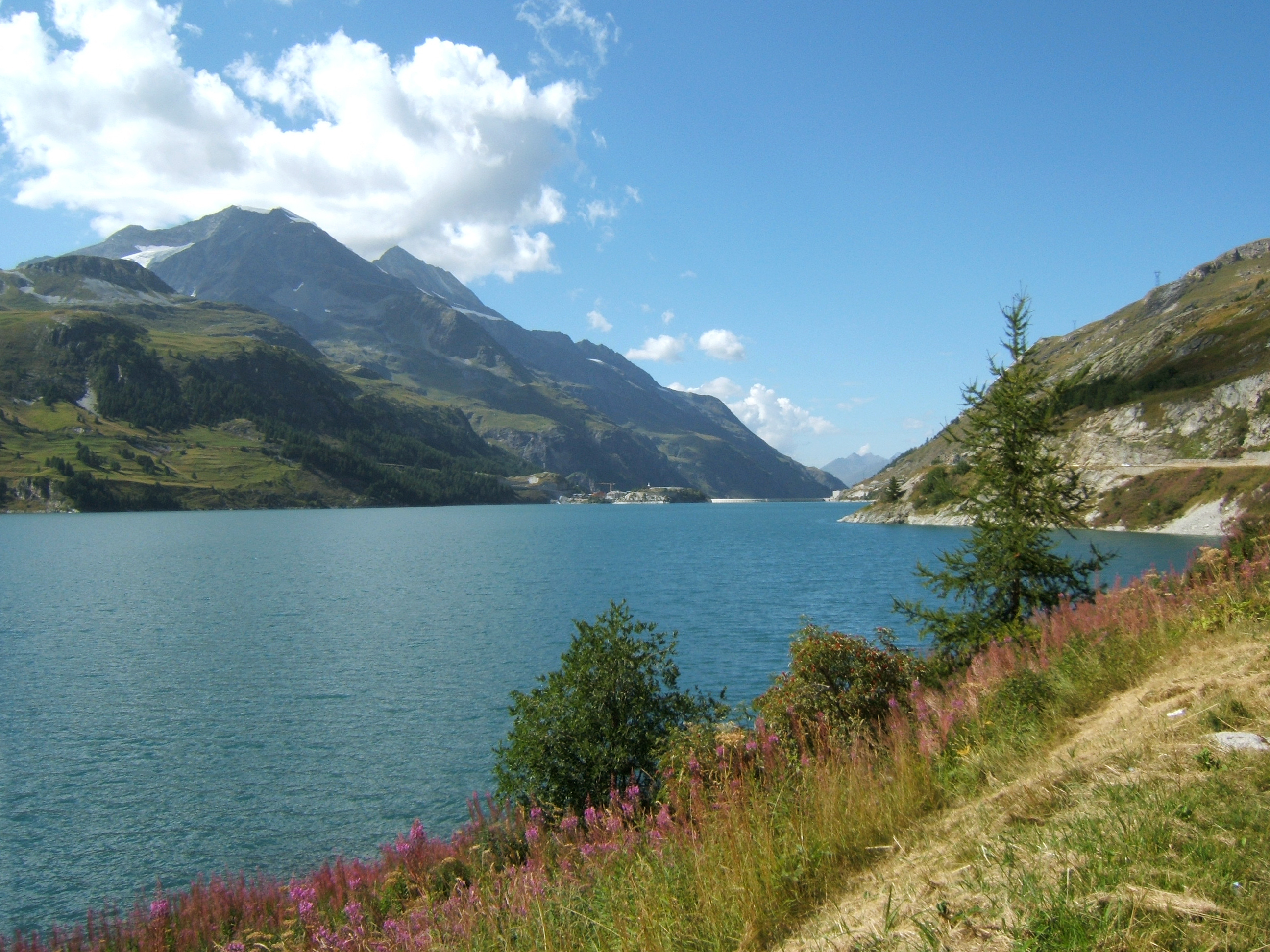 Le lac du Chevril à Tignes. Ce lac artificiel est en amont du barrage de Tignes sur l'Isère.